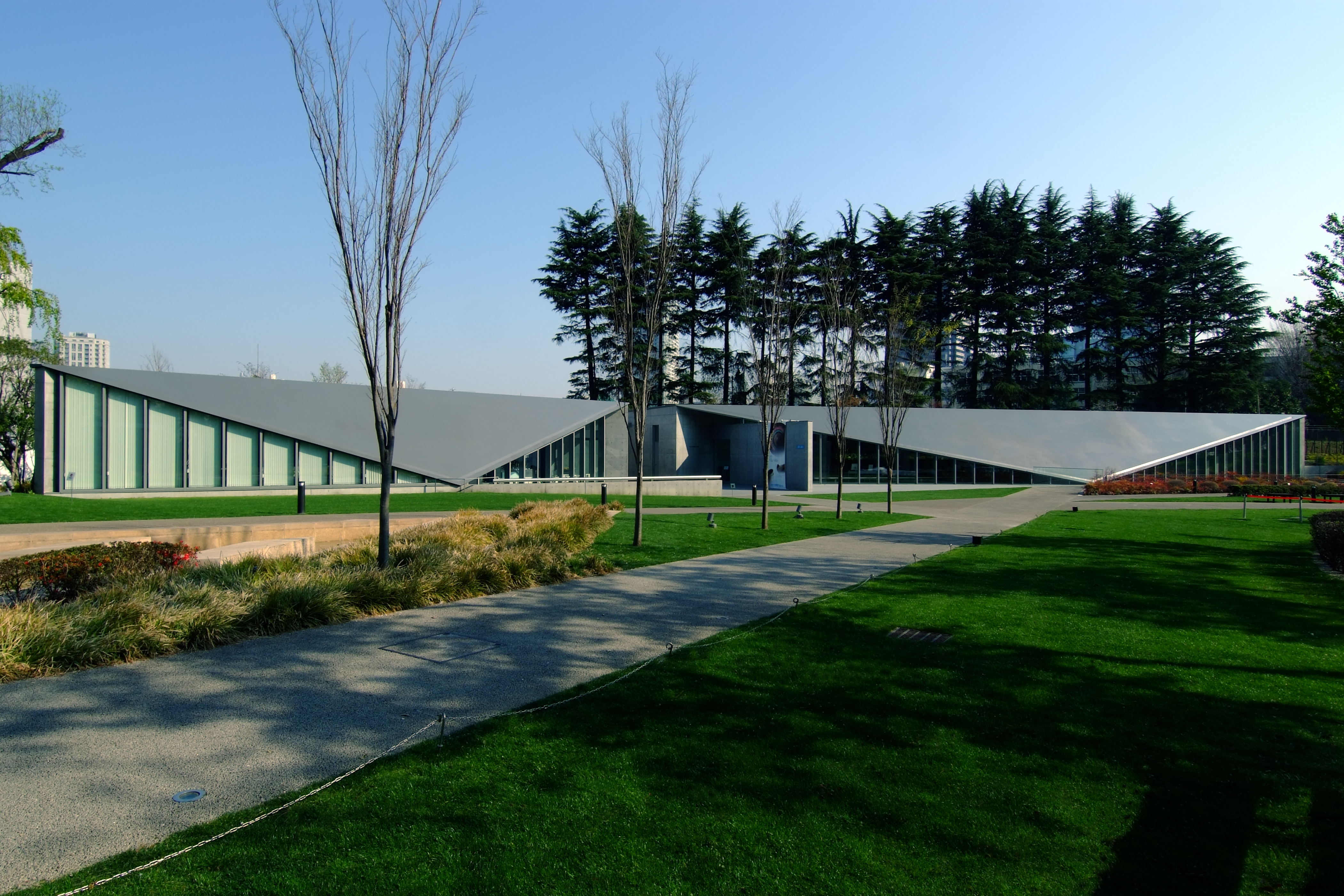 21_21 DESIGN SIGHT, at Akasaka Tokyo Japan, designed by Tadao Ando + Nikken Sekkei in 2007.